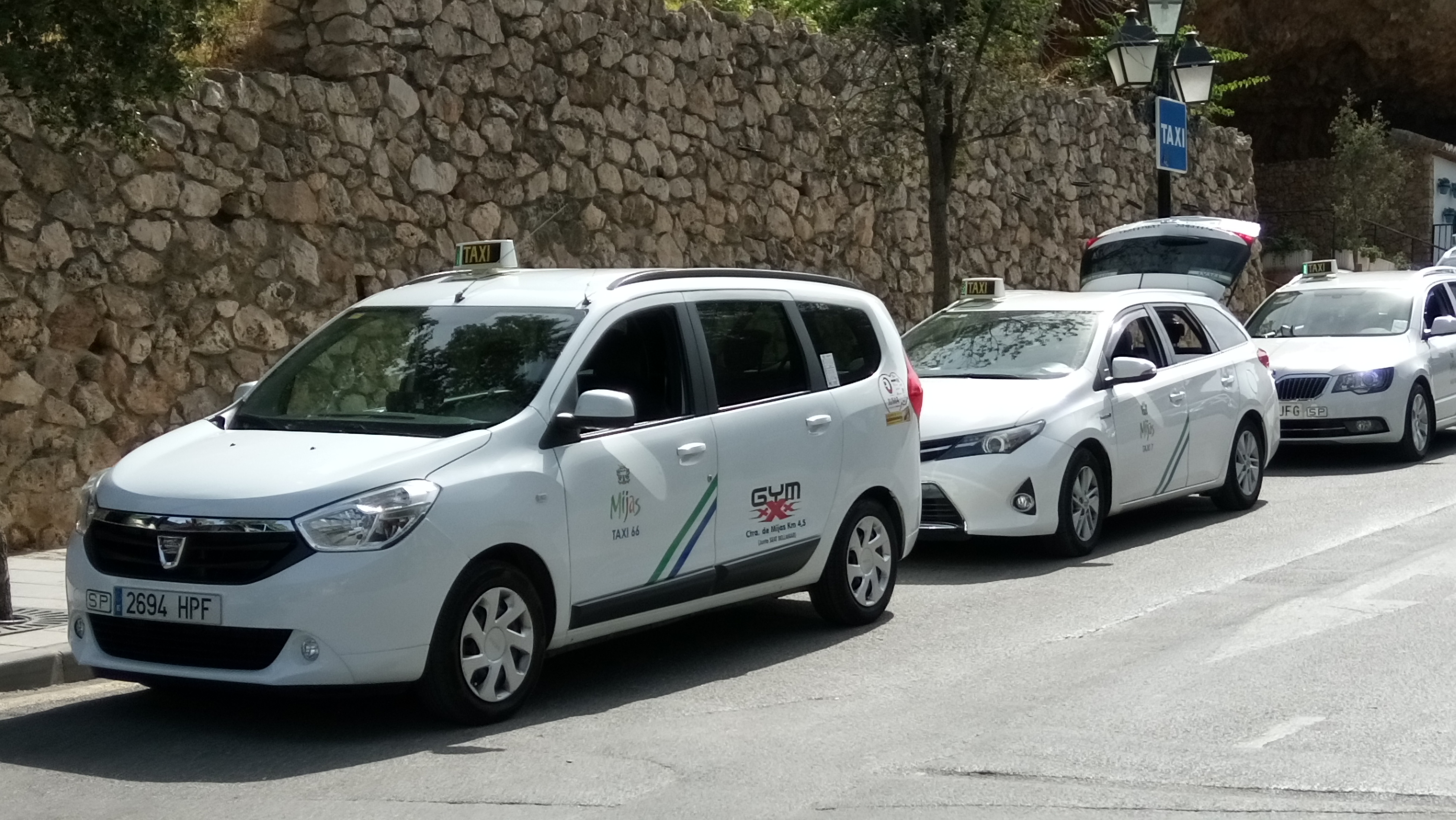 Three Spanish taxis (from left to right: Dacia Lodgy, Toyota Corolla (E170) and Škoda Octavia) in Málaga, Spain